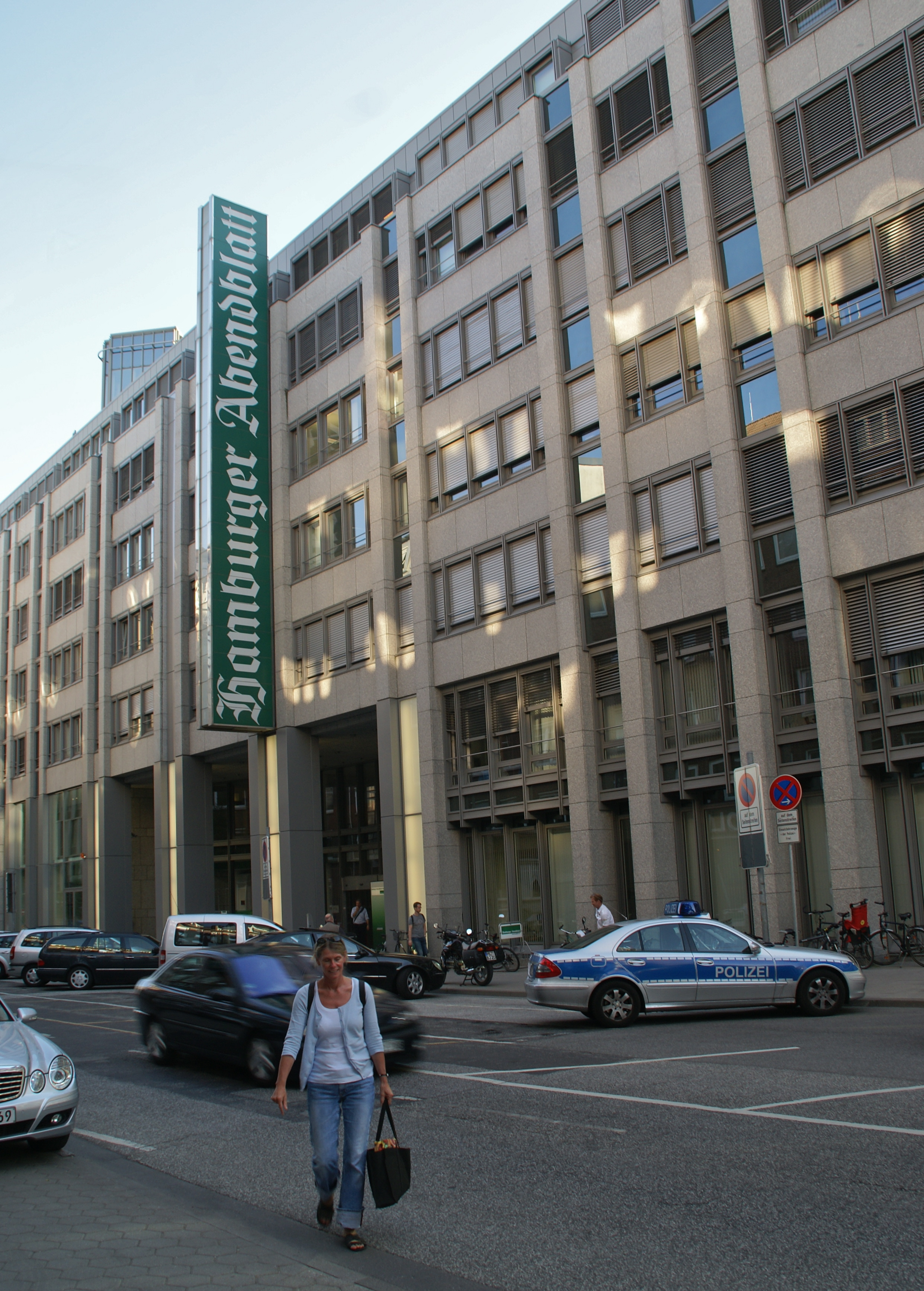 Hamburg (Germany): The entrance of the head office of the Hamburger Abendblatt and the Axel Springer Passage